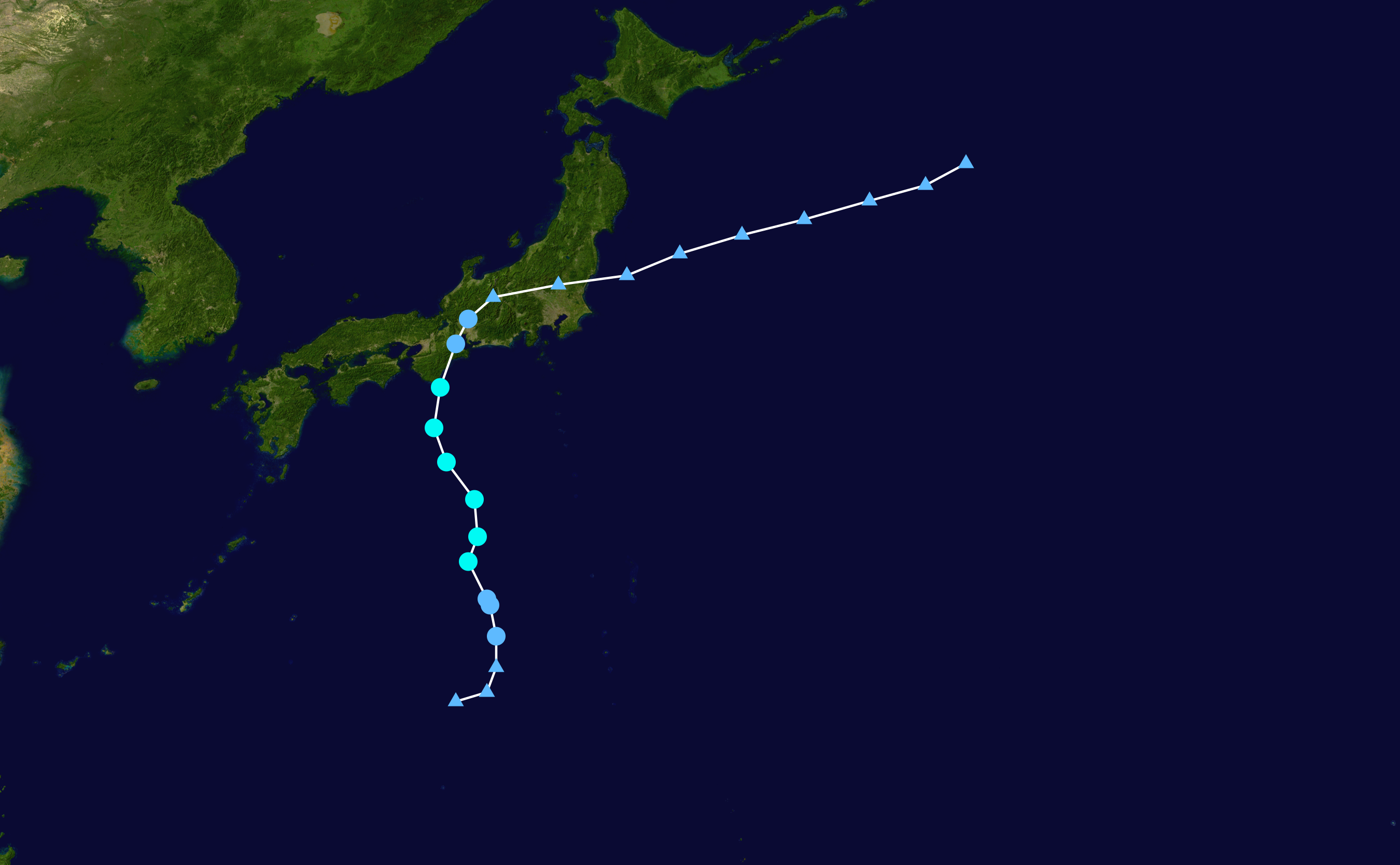 Track map of Tropical Storm Nari of the 2019 Pacific typhoon season. The points show the location of the storm at 6-hour intervals. The colour represents the storm's maximum sustained wind speeds as classified in the Saffir–Simpson scale (see below), and the shape of the data points represent the nature of the storm, according to the legend below. Saffir–Simpson scale Tropical depression≤38 mph≤62 km/h Category 3111–129 mph178–208 km/h Tropical storm39–73 mph63–118 km/h Category 4130–156 mph209–251 km/h Category 174–95 mph119–153 km/h Category 5≥157 mph≥252 km/h Category 296–110 mph154–177 km/h Unknown Storm type Tropical cyclone Subtropical cyclone Extratropical cyclone / Remnant low / Tropical disturbance / Monsoon depression